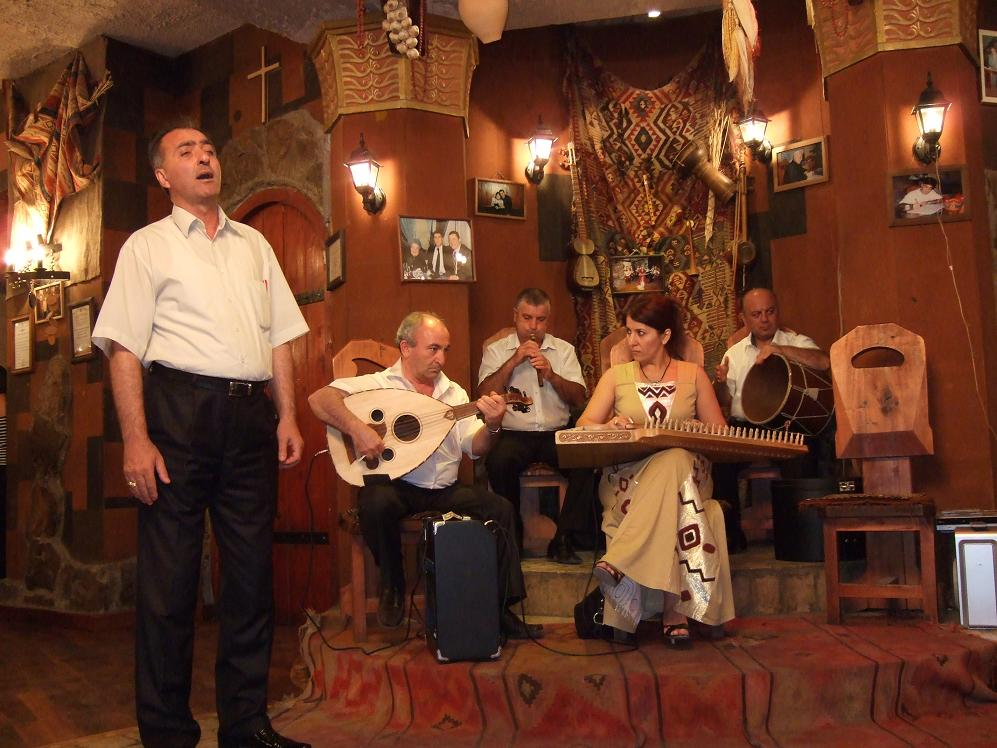 Armenian folk musicians